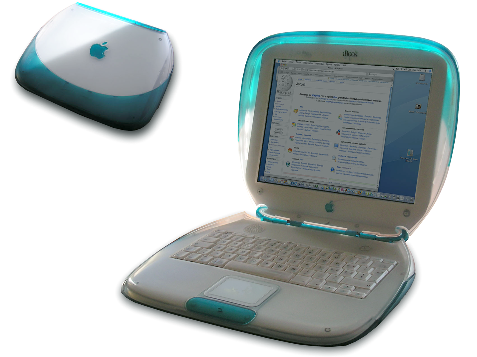 iBook G3 Open and Closed